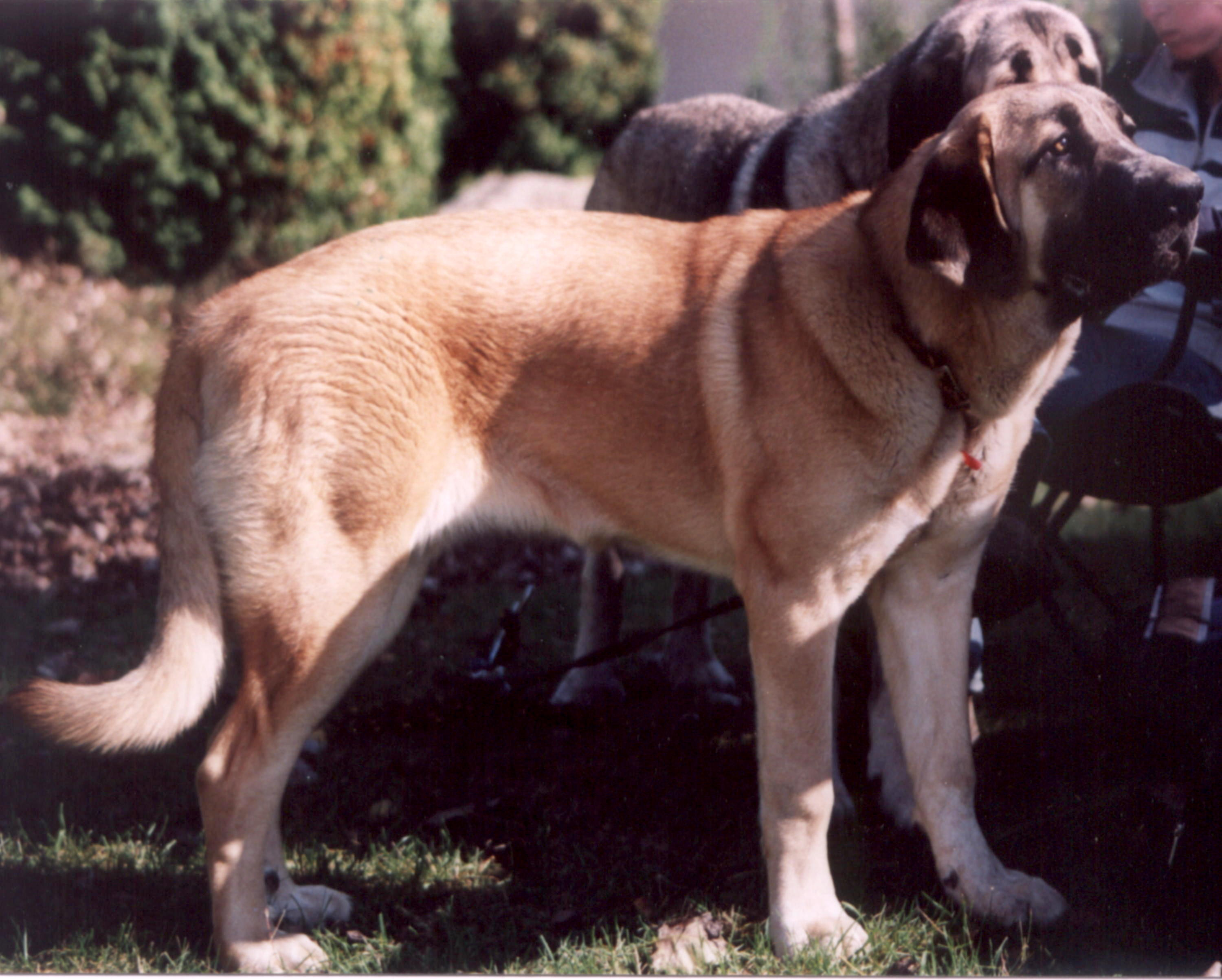 author: Pleple2000